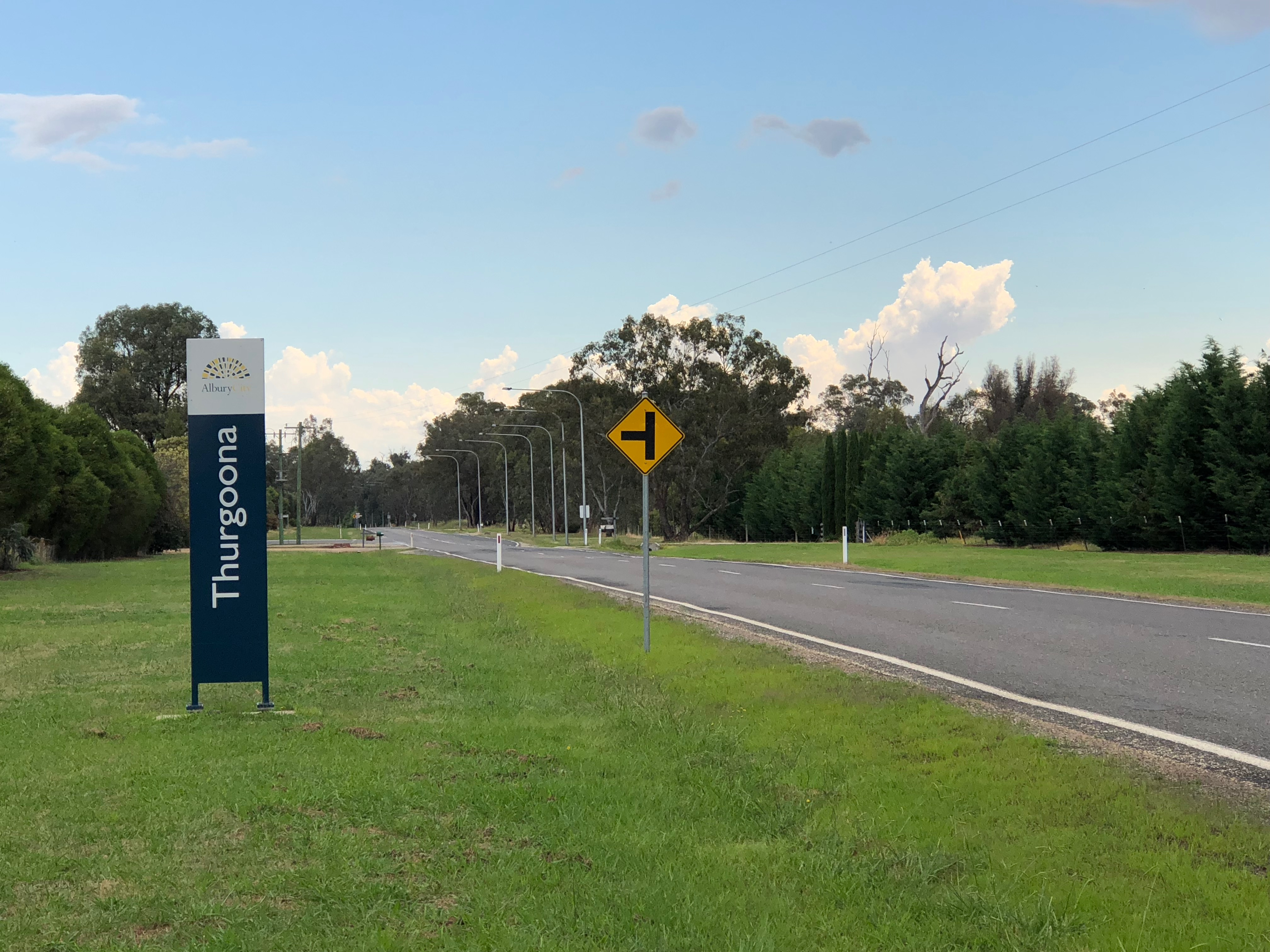 Thurgoona northern boundary as seen from Table Top Road.